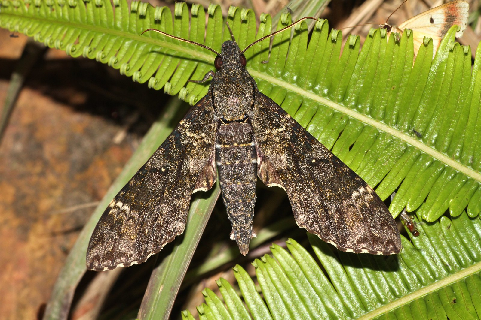 Meganoton nyctiphanes, female (Sphingidae) Borneo, Trusmadi area, 2100 m